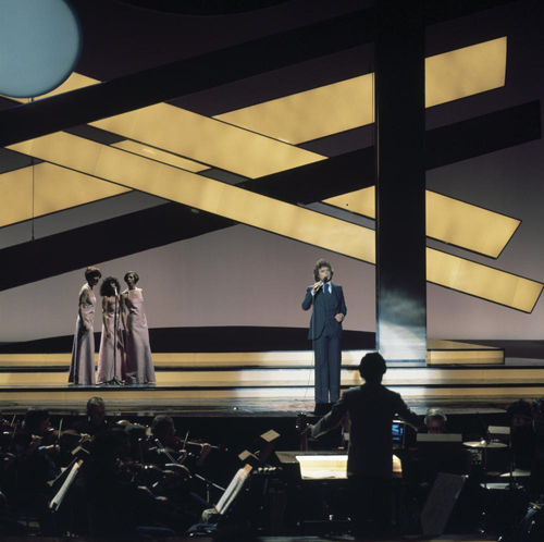 Braulio at a rehearsal for the Eurovision Song Contest 1976.